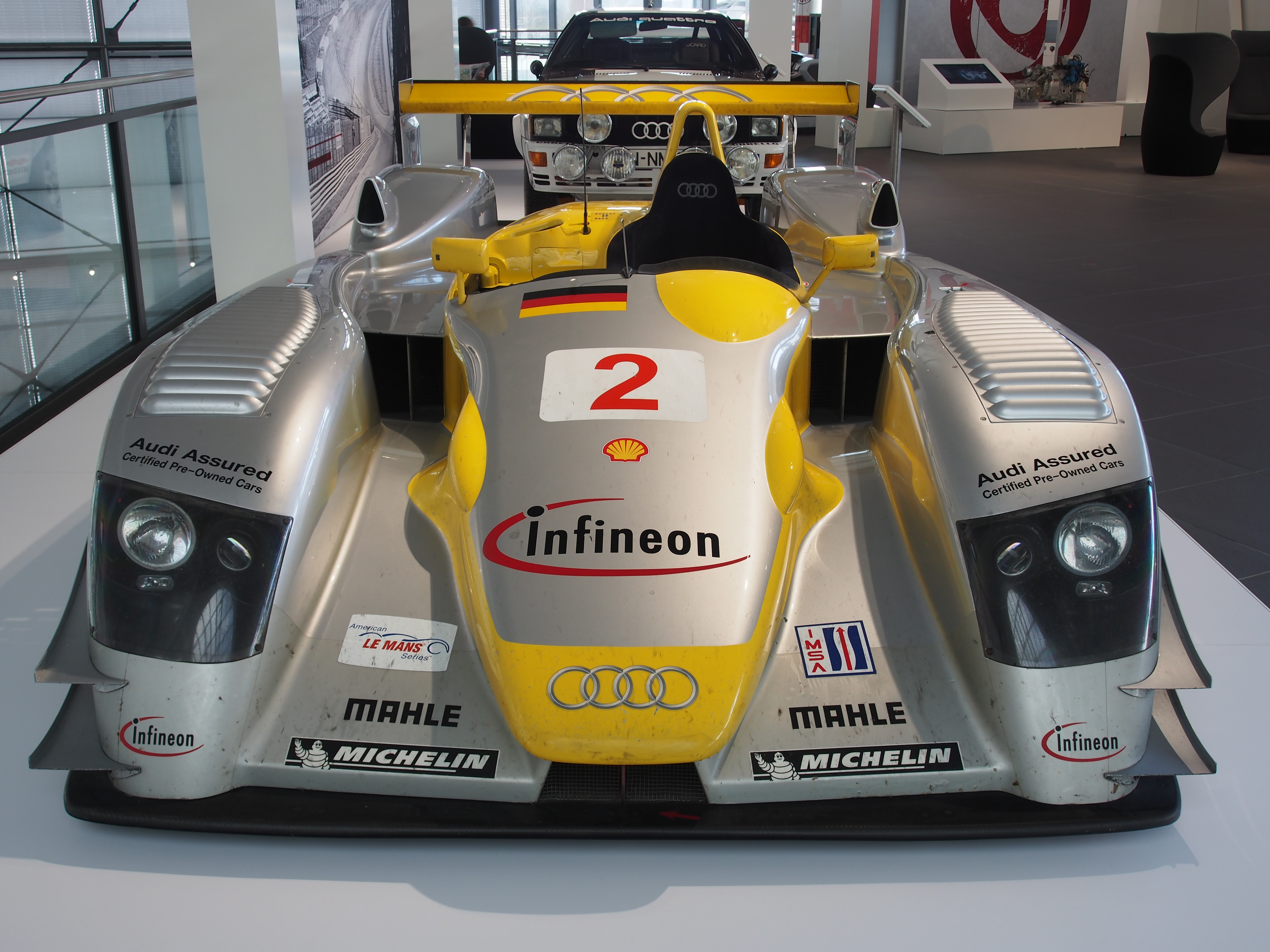 Photographed at the Audi Forum in Neckarsulm.